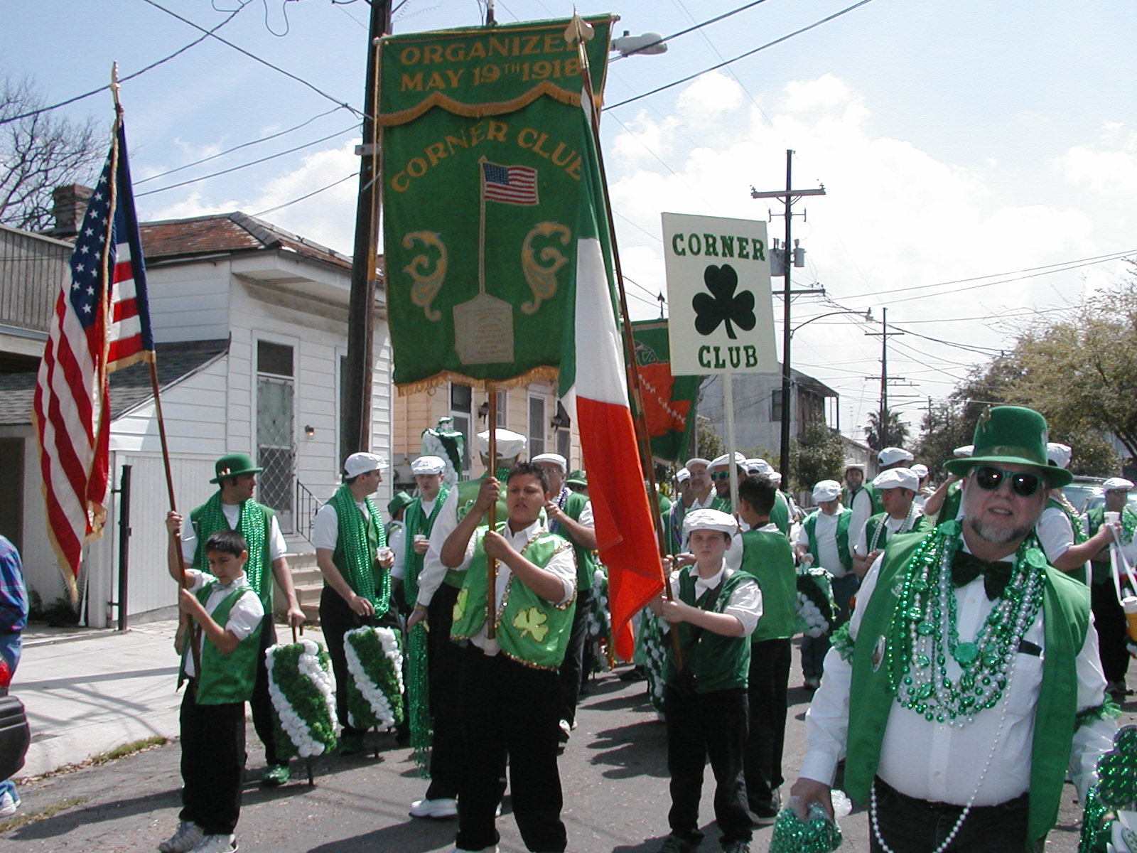 "Corner Club" marks St. Patrick's Day, Uptown New Orleans.